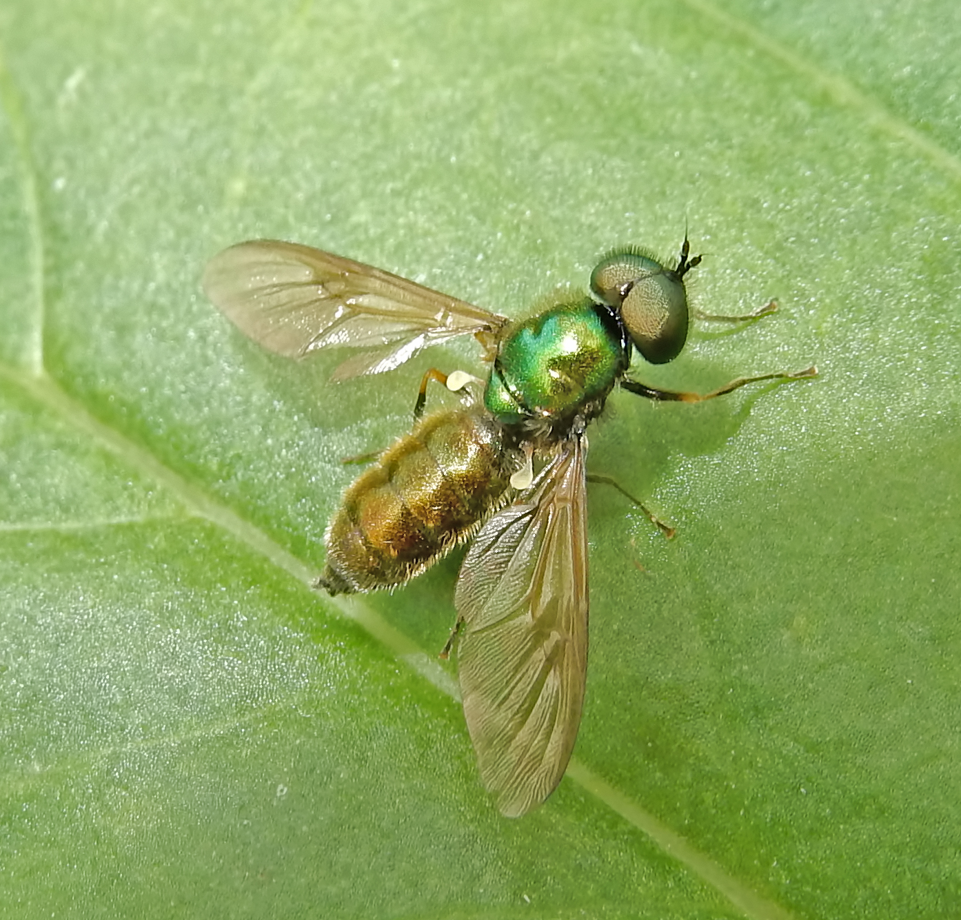 A common British soldierfly photographed on the Spring Road allotments (Ipswich, TM176447) on 14 June 2016. You can tell it is a male by the bronze-coloured abdomen, females have broader blue abdomens.